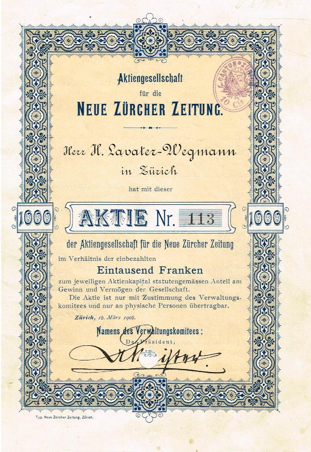 Registered share of the AG für die Neue Zürcher Zeitung, issued at the 16. March 1906